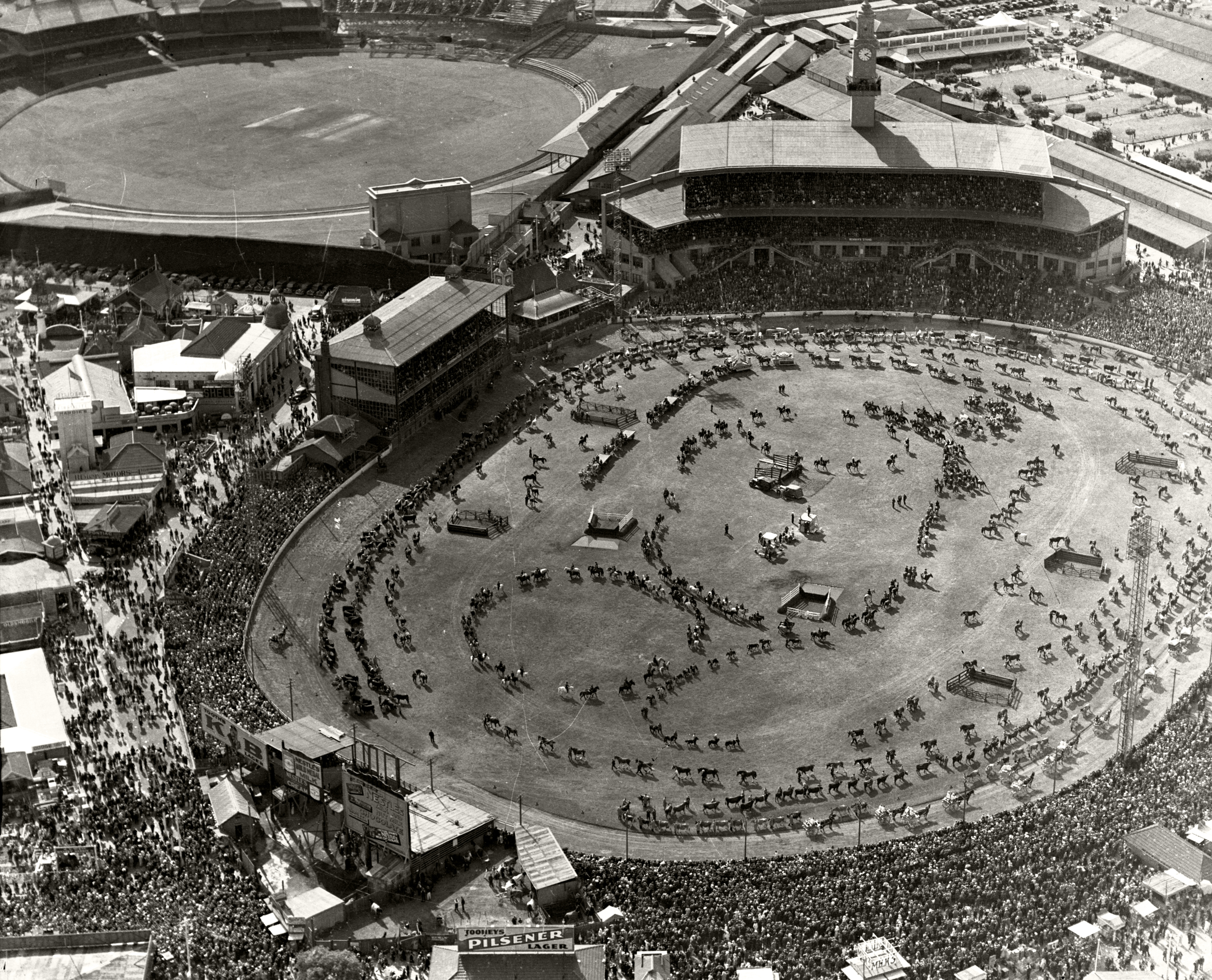 Adastra Aerial Survey Collection